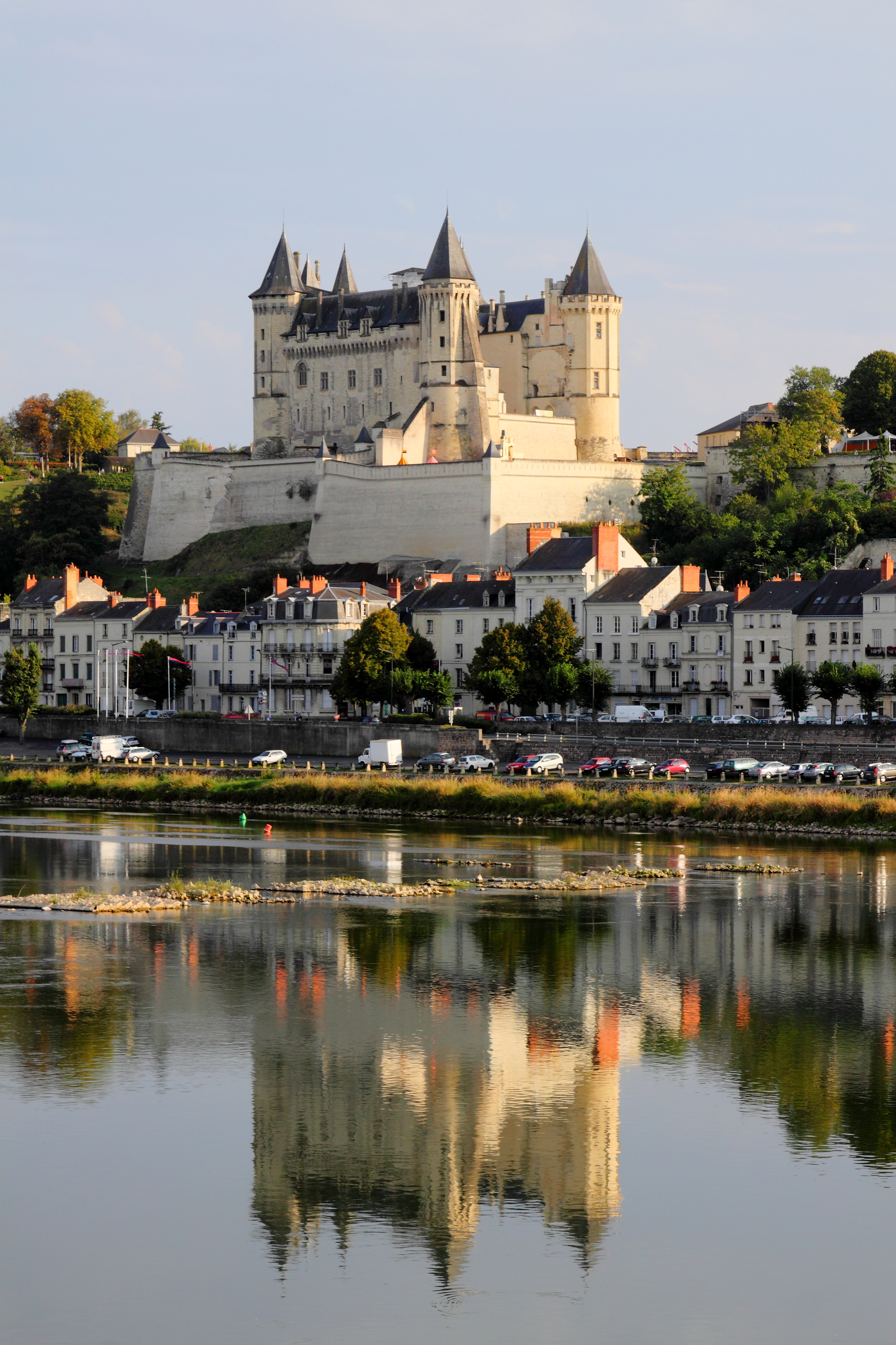 Saumur Castle .